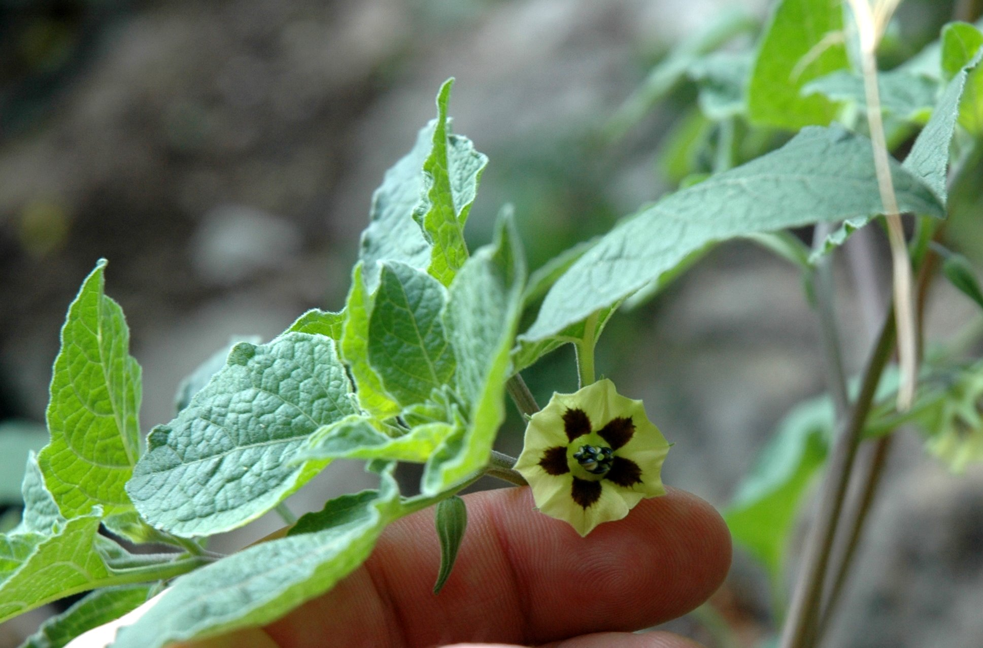 Front view of a flower of Physalis coztomatl at Erlangen Botanical Garden, Germany